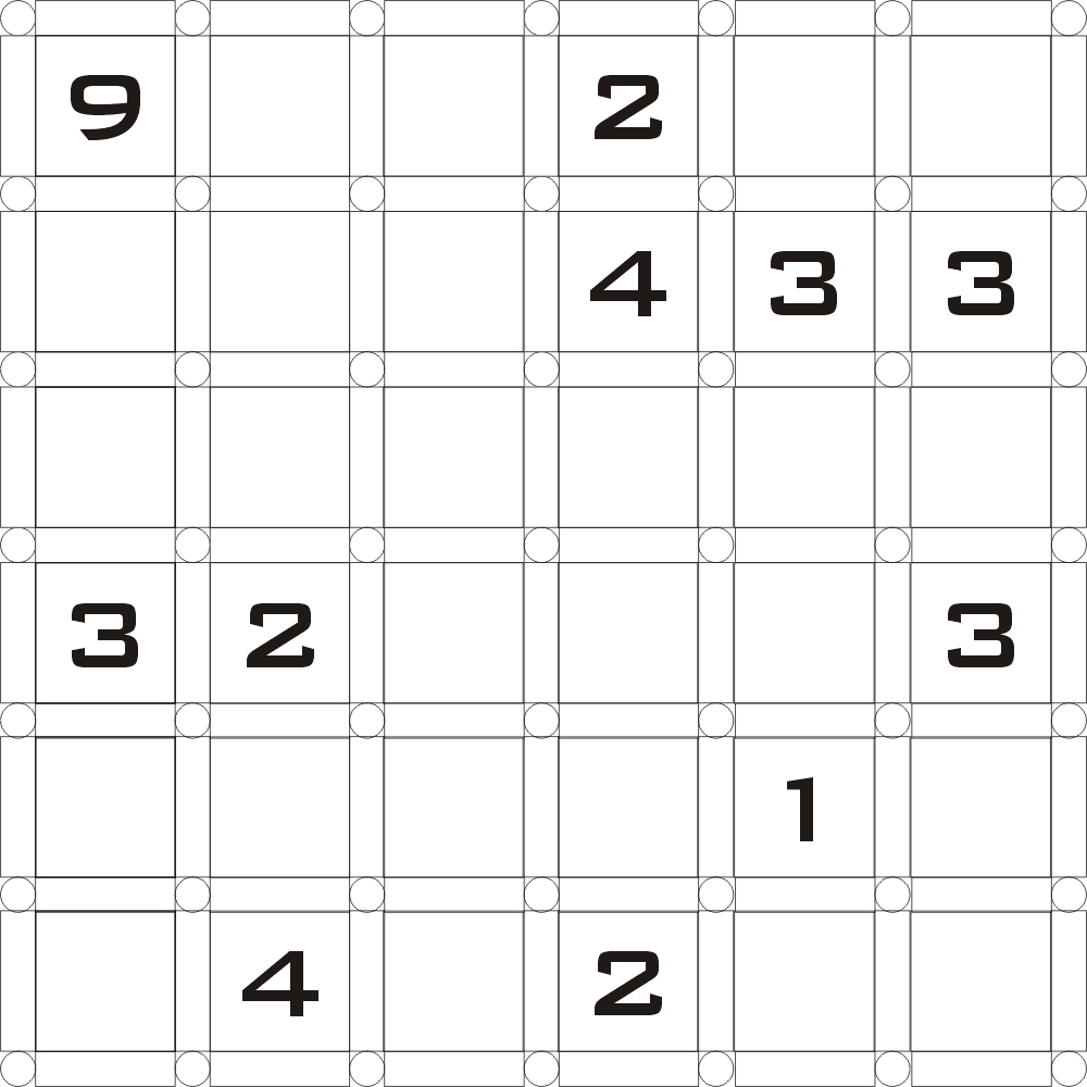 Plot of a Sikaku.